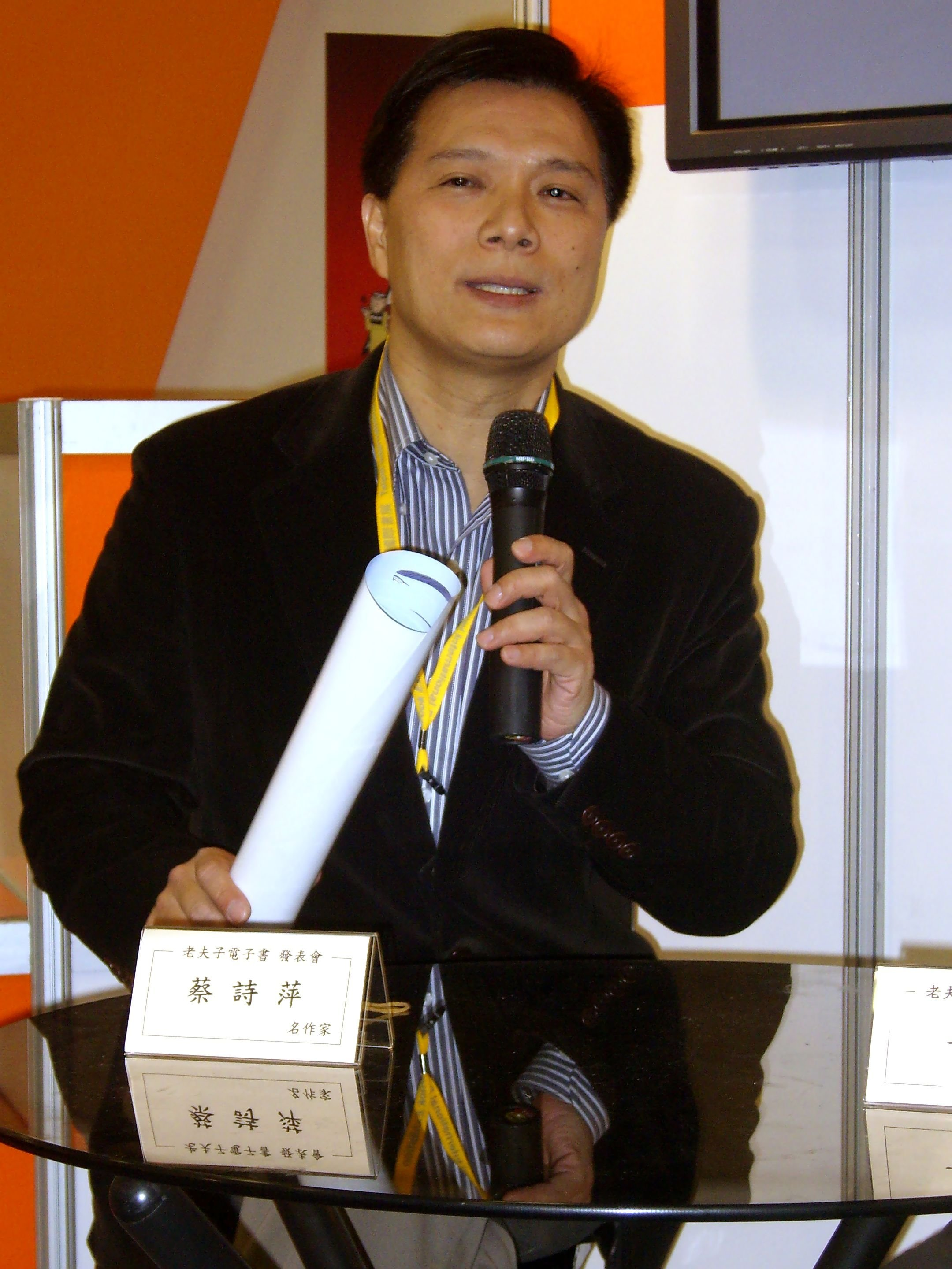 2008 Taipei International Book Exhibition - Shih-ping Tsai, a novelist from Taiwan, at United Daily News Online.